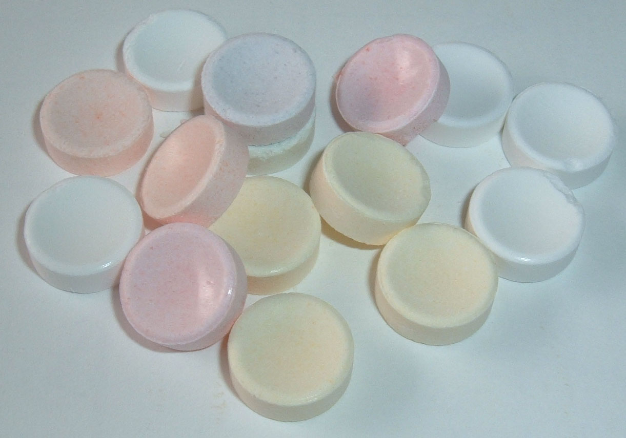 This is the US version of Smarties, purchased Feb. 2005